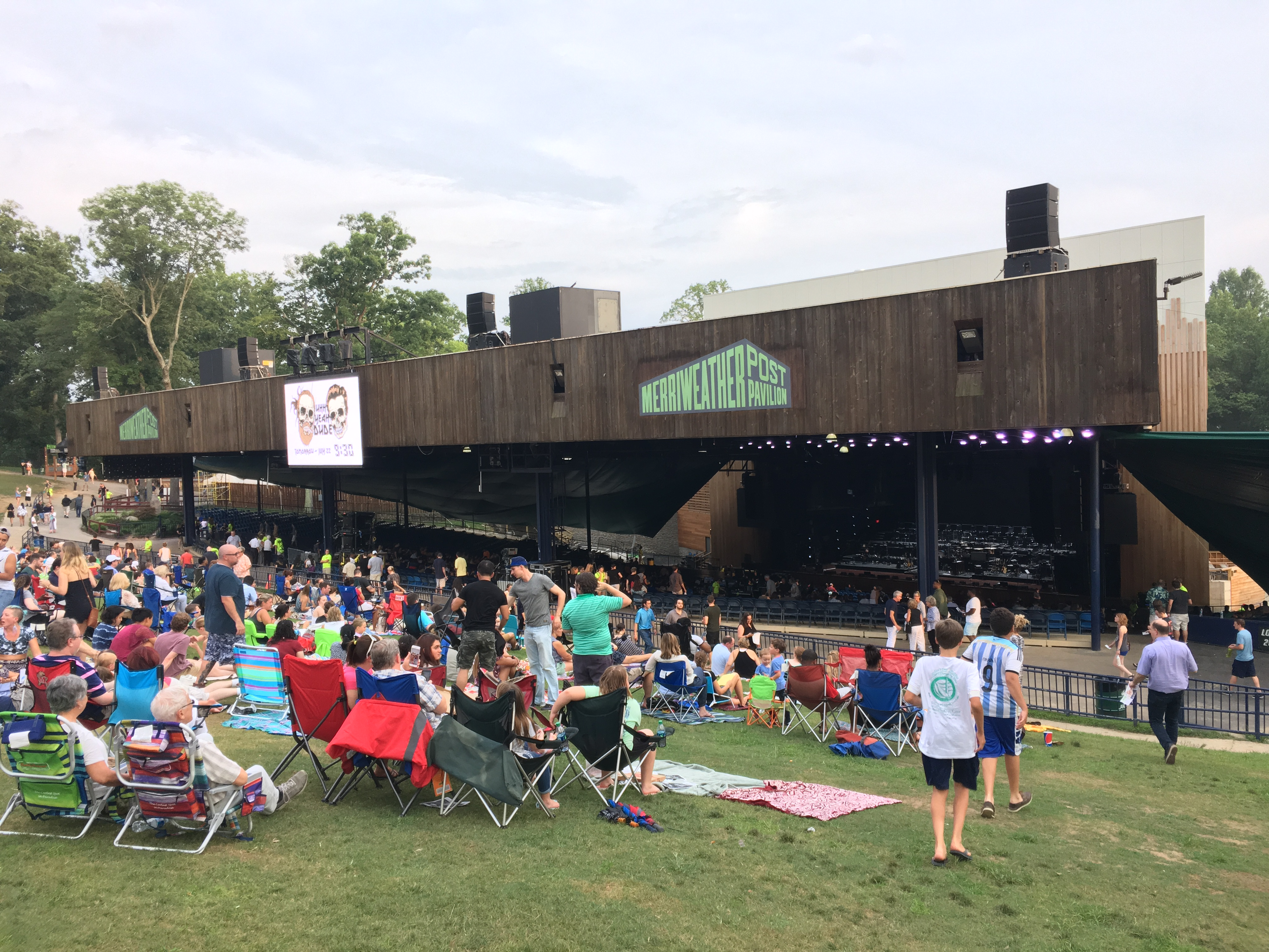 Merriweather Post Pavilion, Columbia, MD - Hans Zimmer Concert, Summer 2017